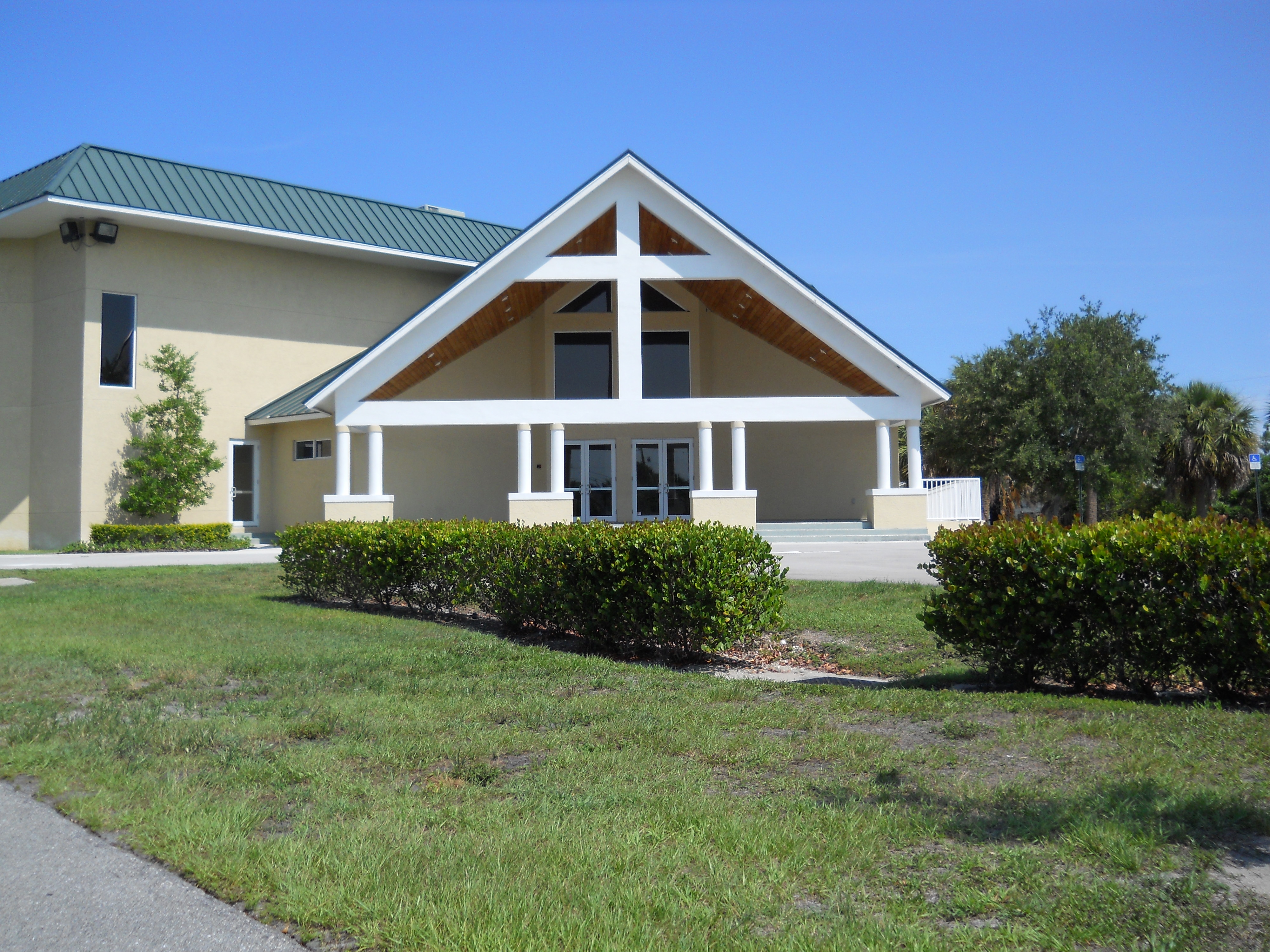 First Baptist Church, Jensen Beach, Florida: Main entrance from the northwest